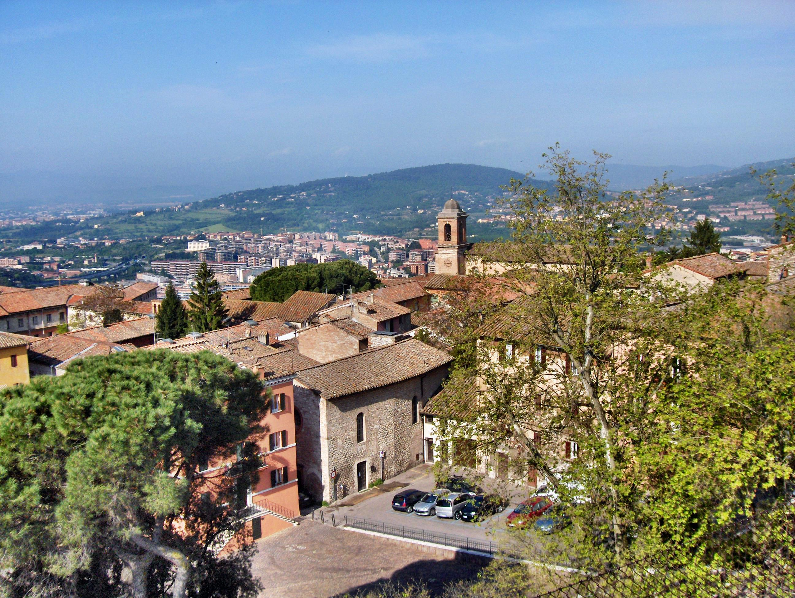 View of Perugia, Italy and the Church of San Spirito